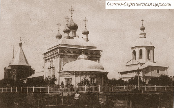 Old_Livny